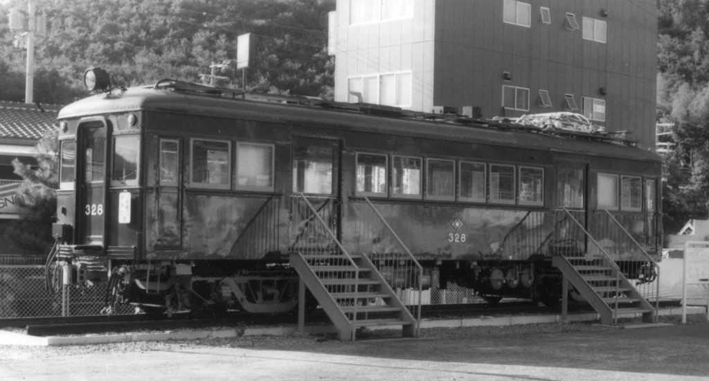 Hankyu 320 series electric car #328 at the Nose Electric Railway Hirano Depot